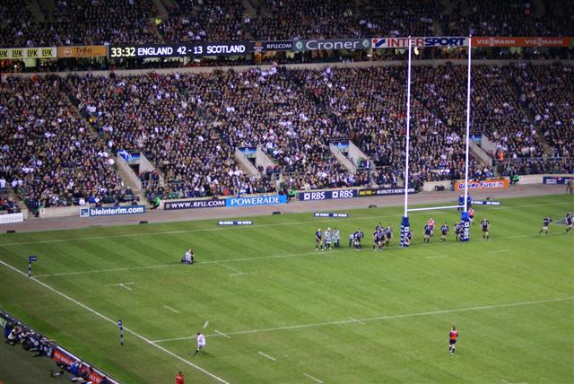 Team Scotland vs Team England